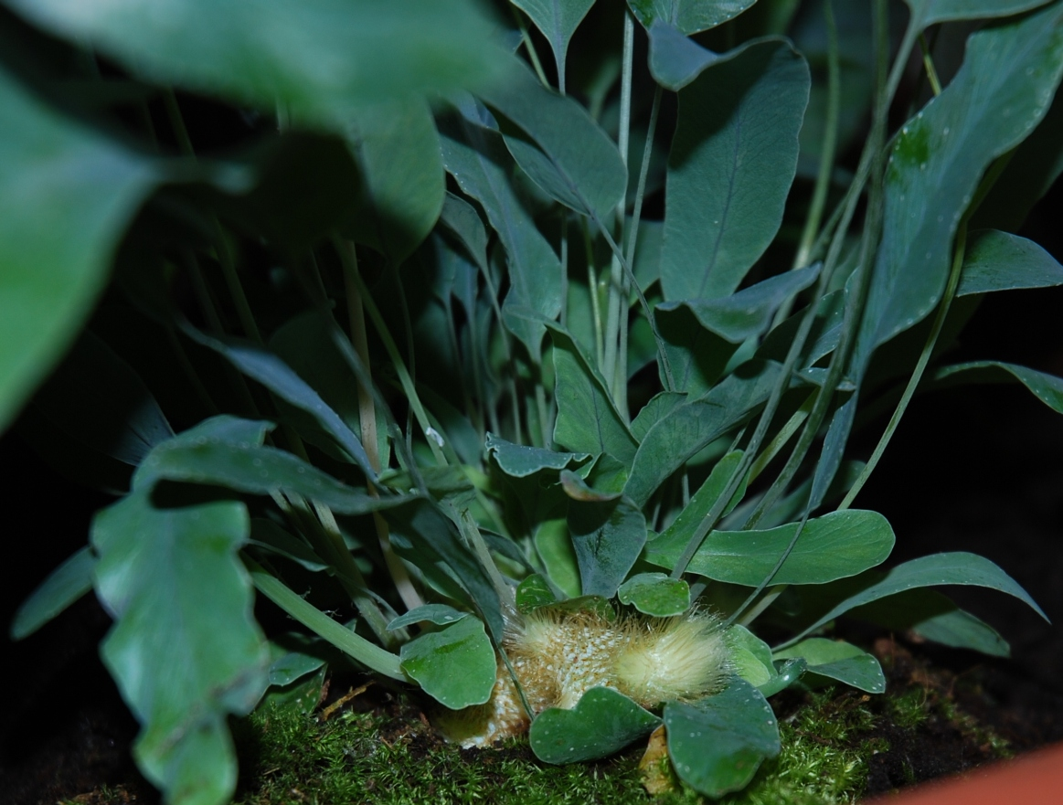 Young fern, phlebodium aureum with visible golden rhizomes.